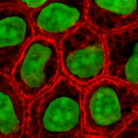 Cultured MDCK epithelial cells were stained for keratin, desmoplakin, and DNA. The stained cells were visualized by scanning laser confocal microscopy. The image shows how keratin cytoskeletal filaments are concentrated around the edge of the cells and merge into the desmoplakin which is located at desmosomes of the surface membrane. The network of keratin to desmosome to keratin linking the cells of an epithelial sheet is what holds together tissues like skin.